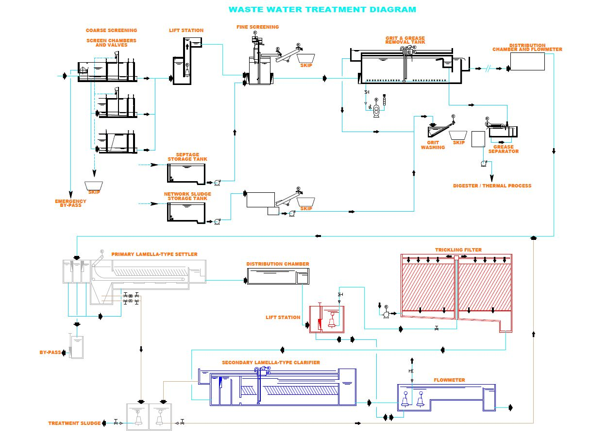 Waste water treatment diagramm